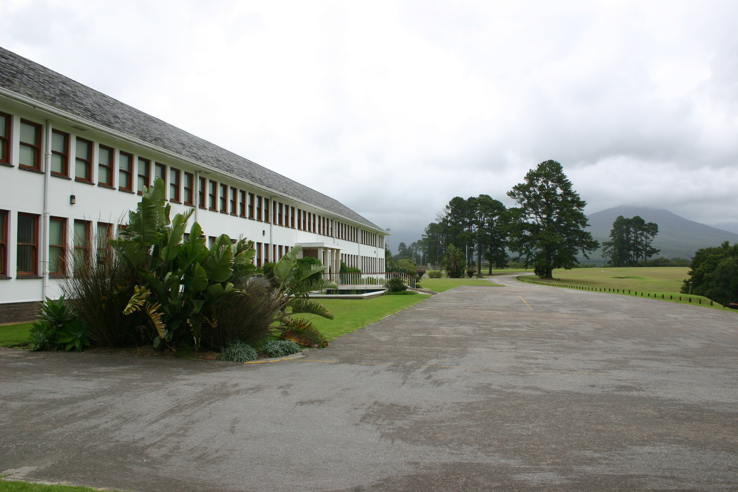 Own image - New buildings at Saasveld 3 January 2007